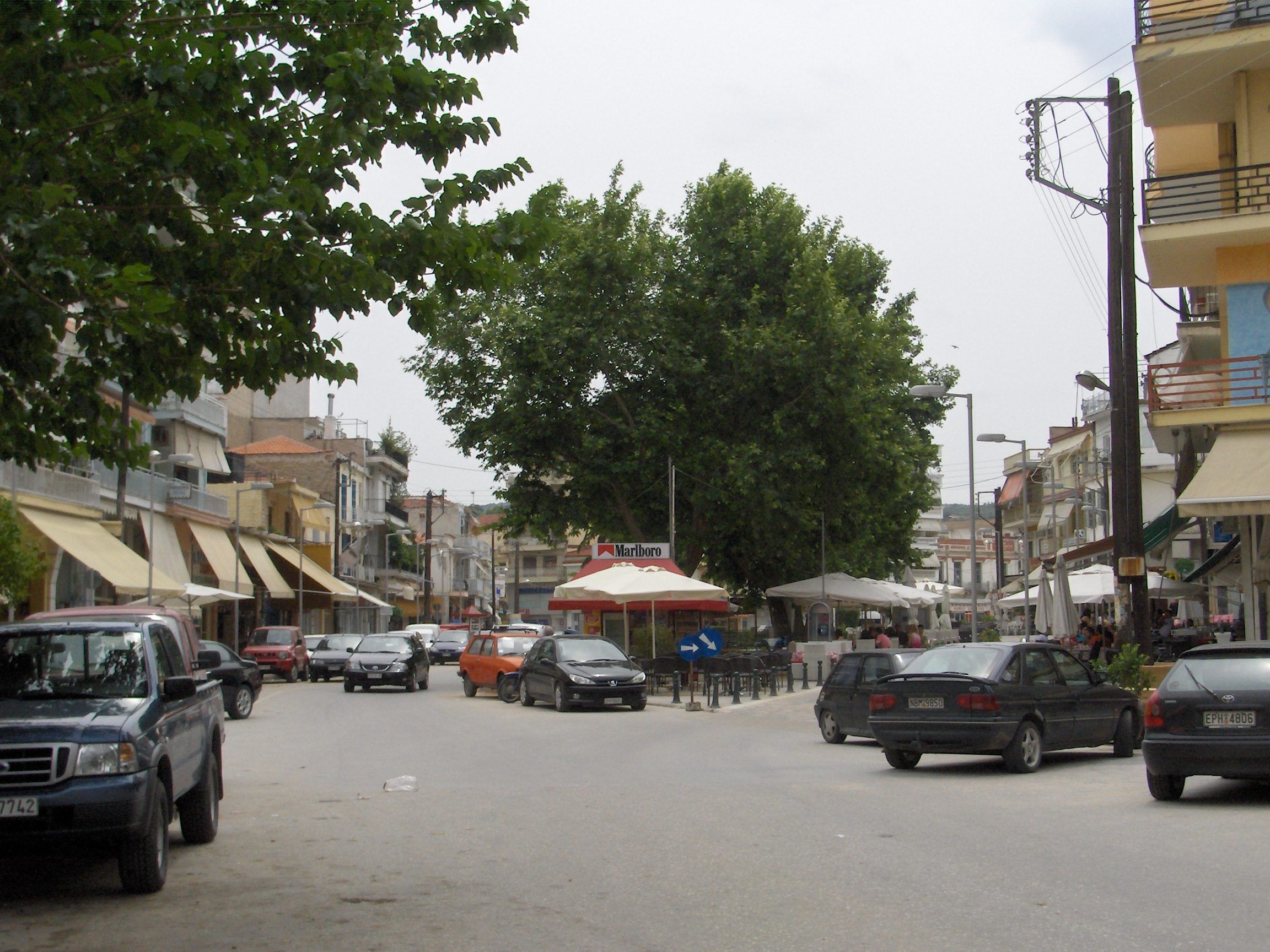 Nigrita's central square, Greece.